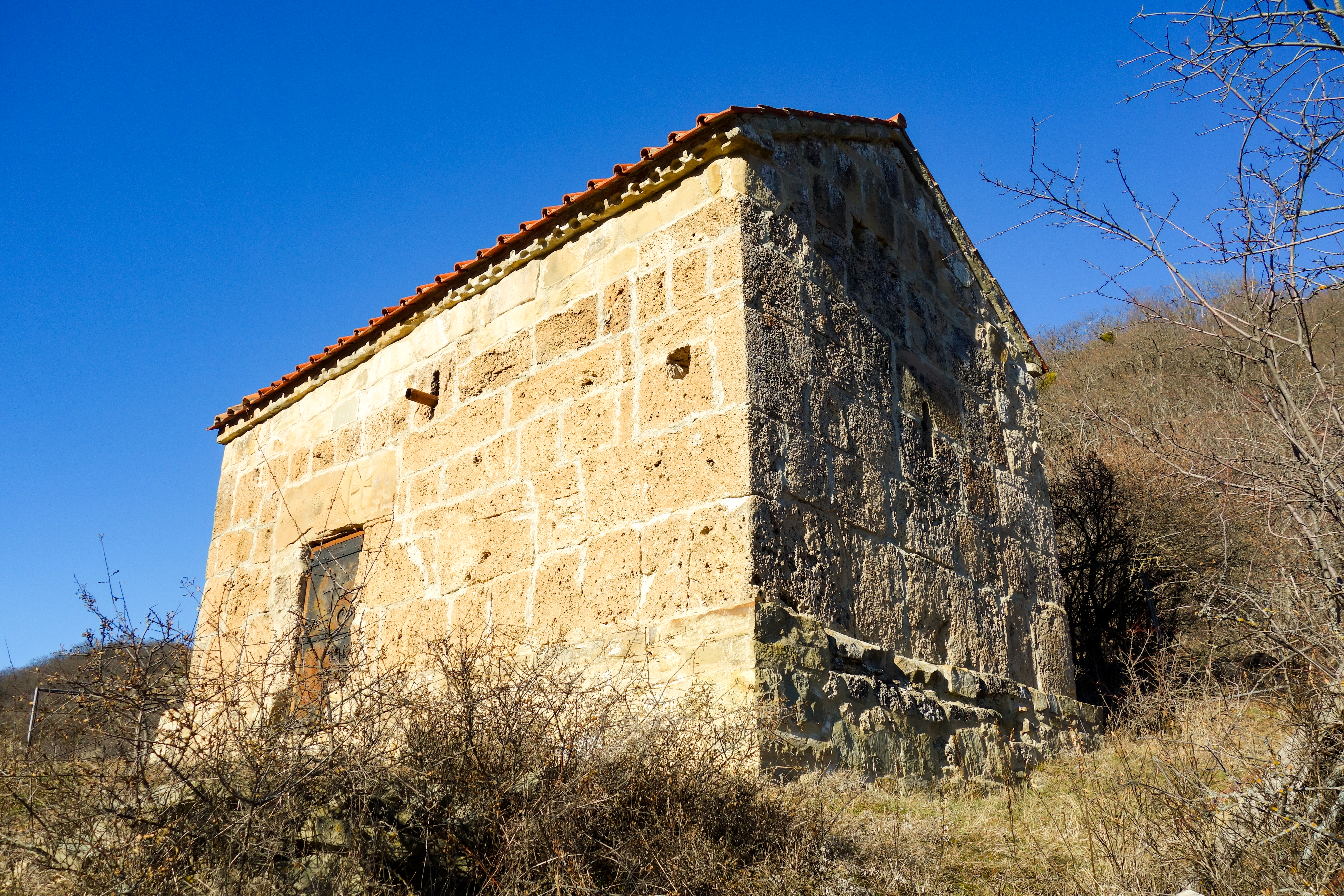 Machkhani Church (IX c.), Mtskheta-Mtianeti, Georgia